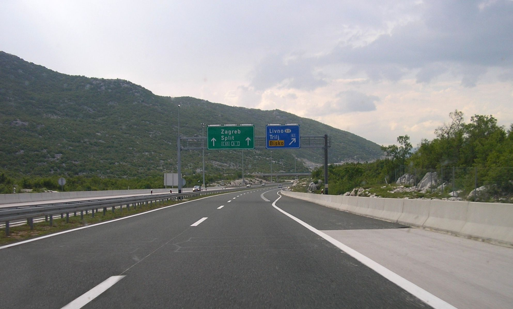 Bisko interchange on A1 highway in Croatia